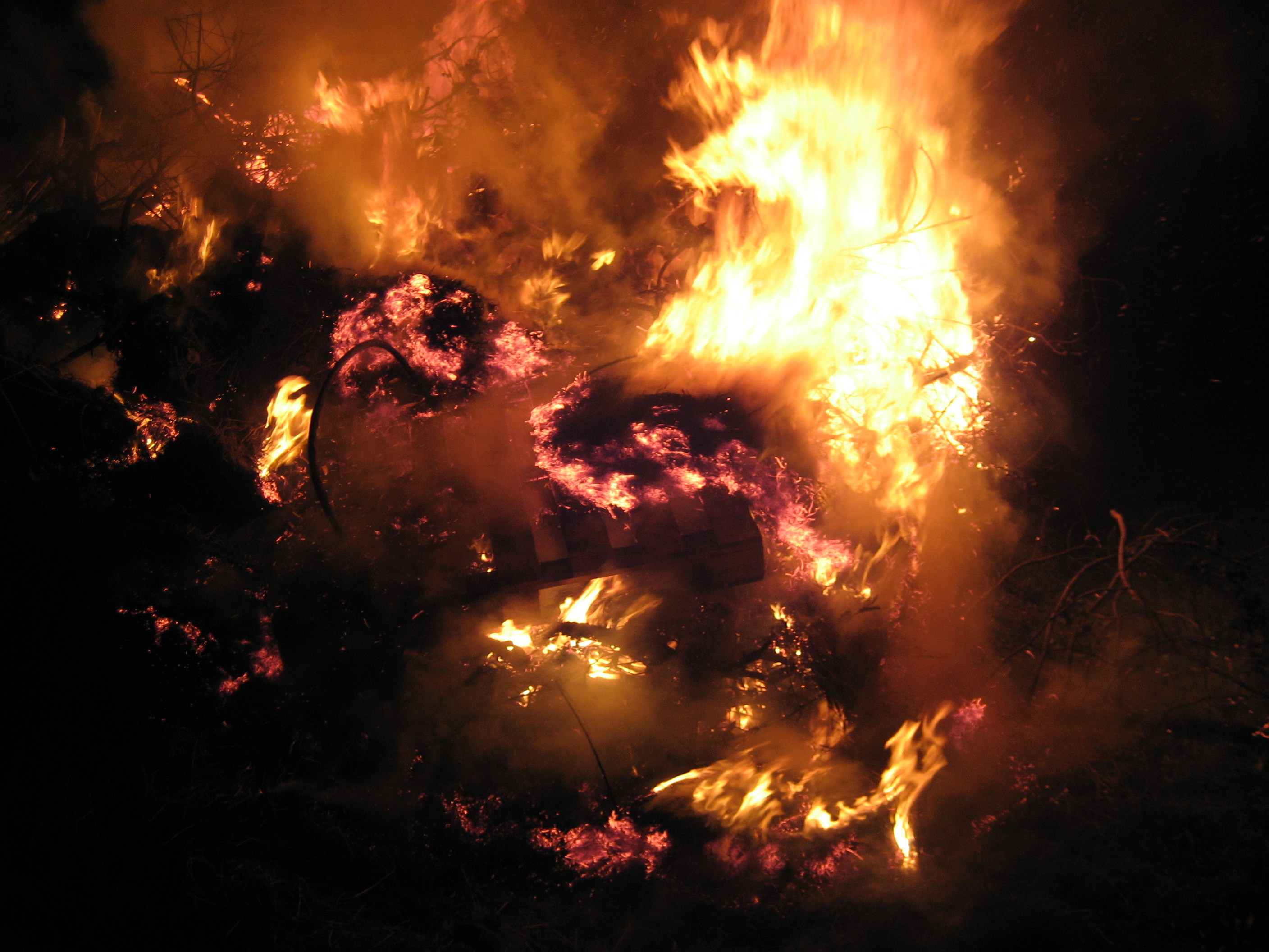 A picture of our bonfire taken with my digital camera.